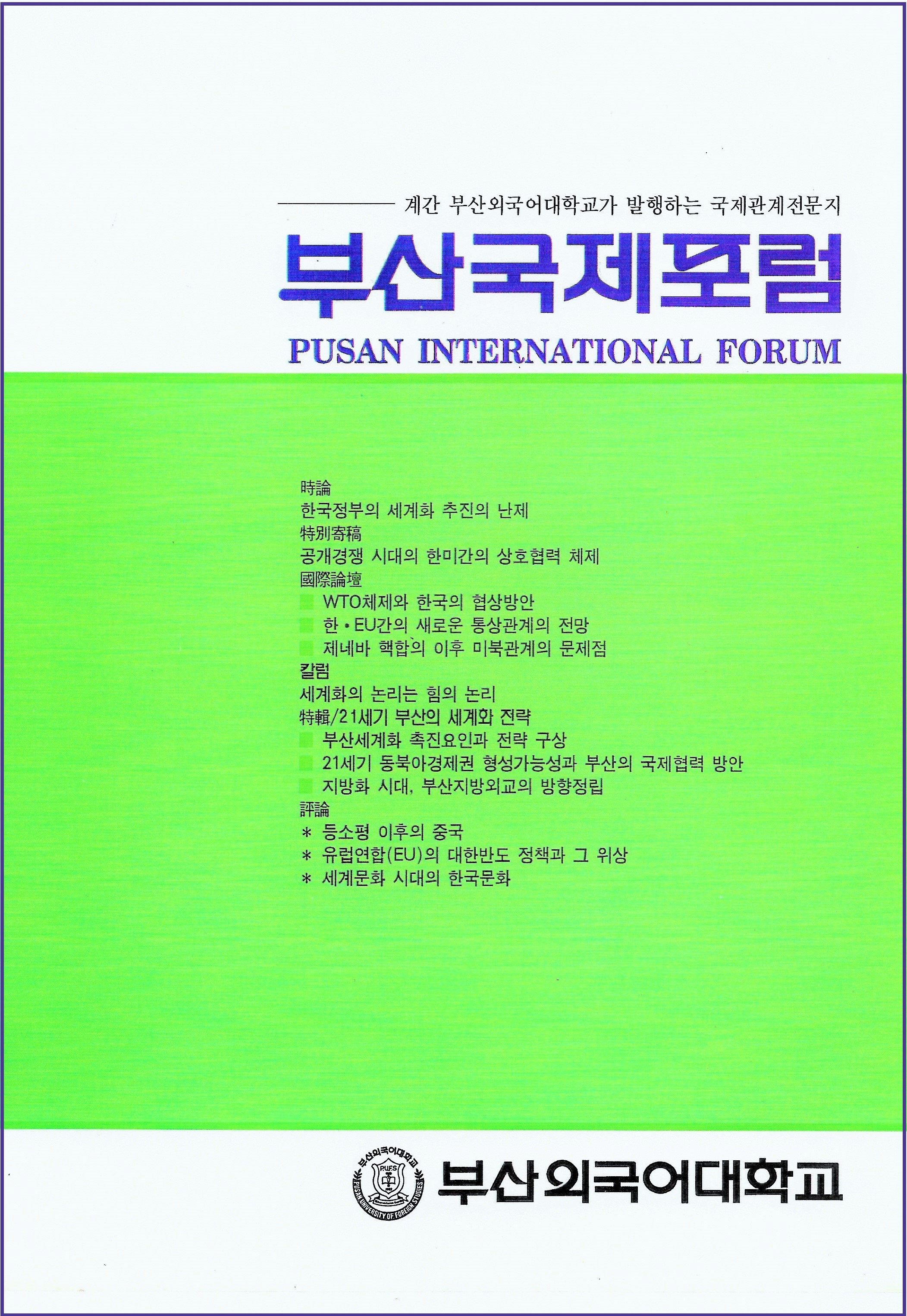 Cover of Pusan International Forum